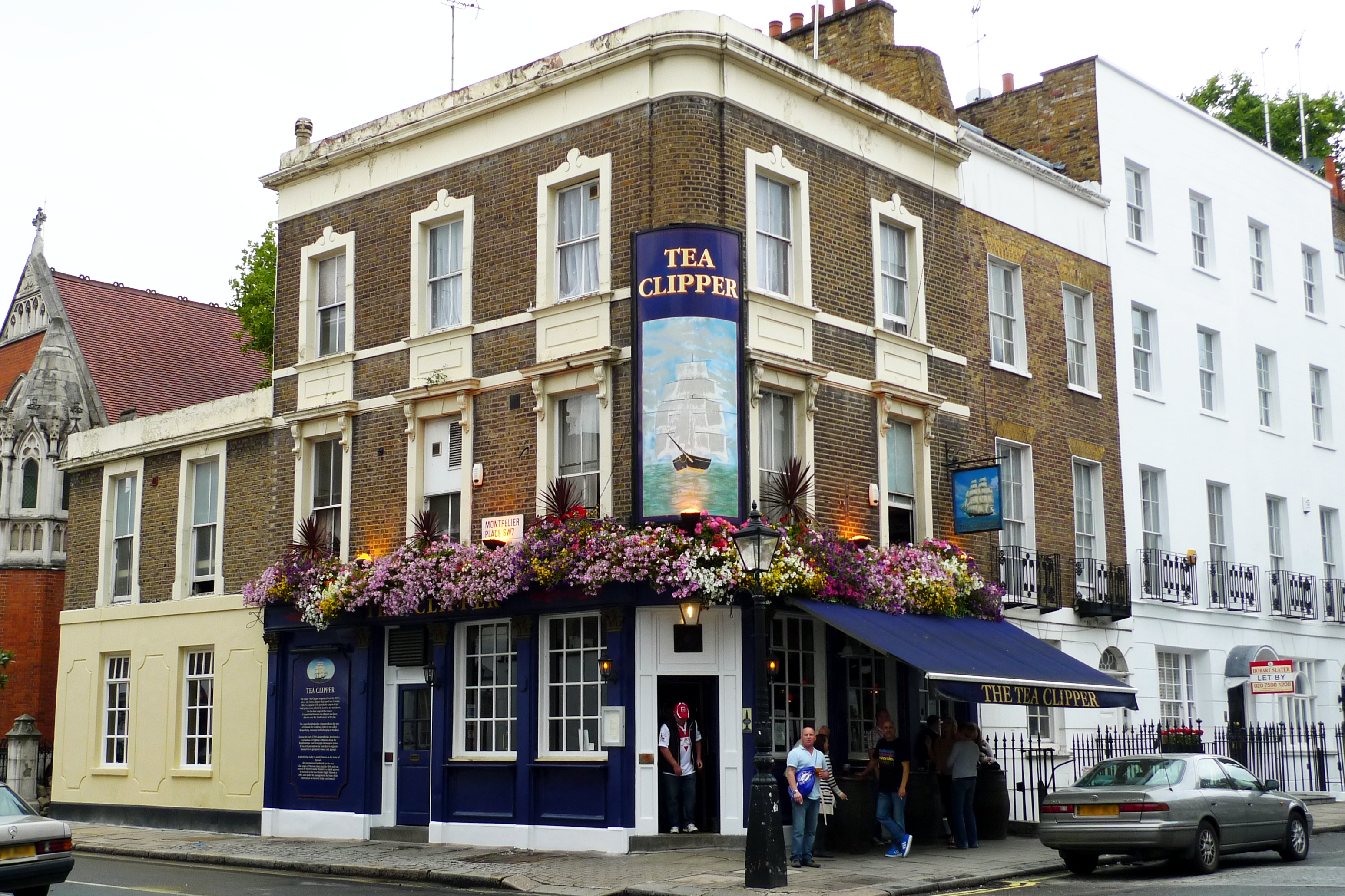 Decent looking place just off Brompton Road. Address: 19 Montpelier Street. Former Name(s): The Talbot. Owner: Convivial London Pubs (website); Capital Pub Company [Capital Pub Company 2] (former).